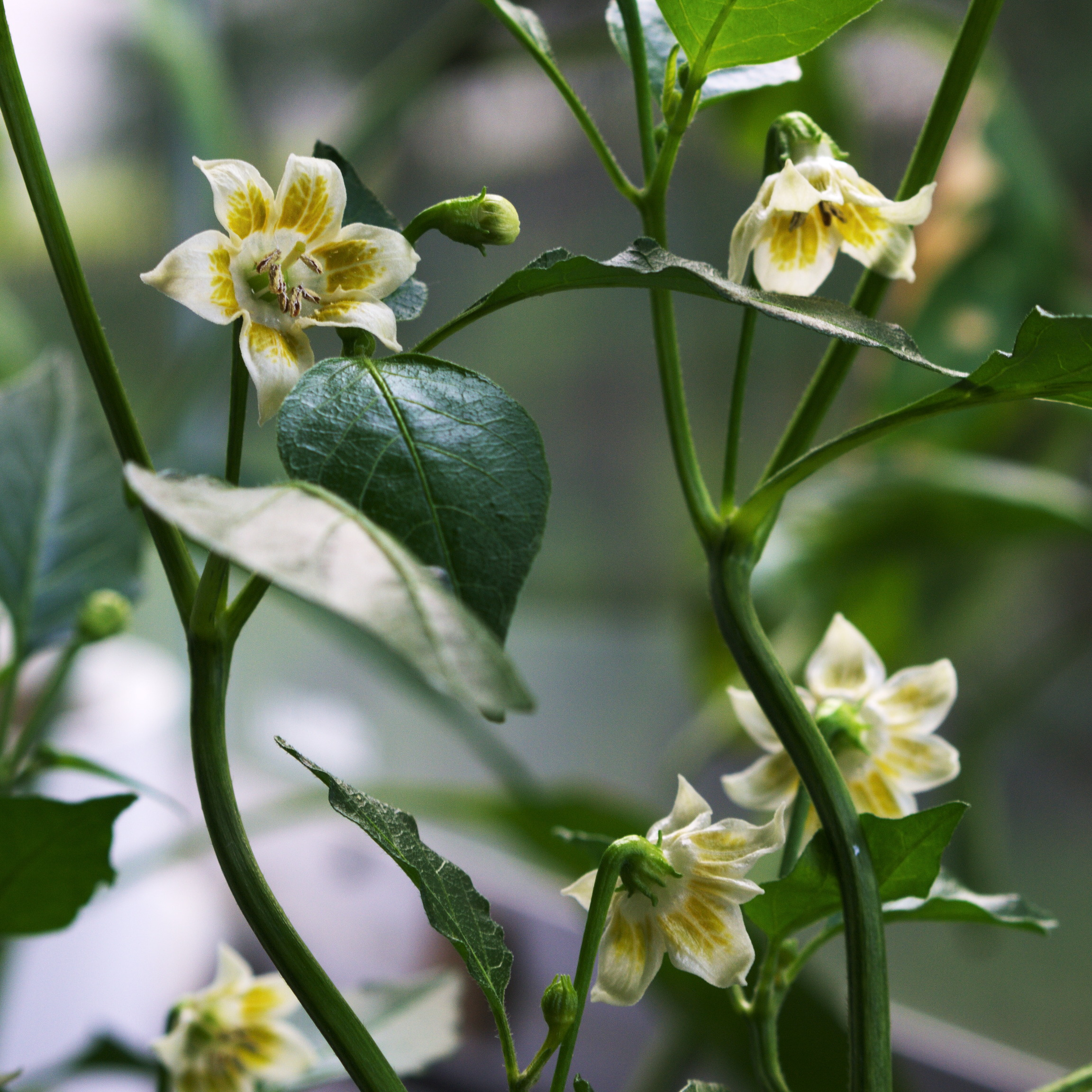 Flower of Capsicum baccatum 'PI 281320' (Aji Cristal).